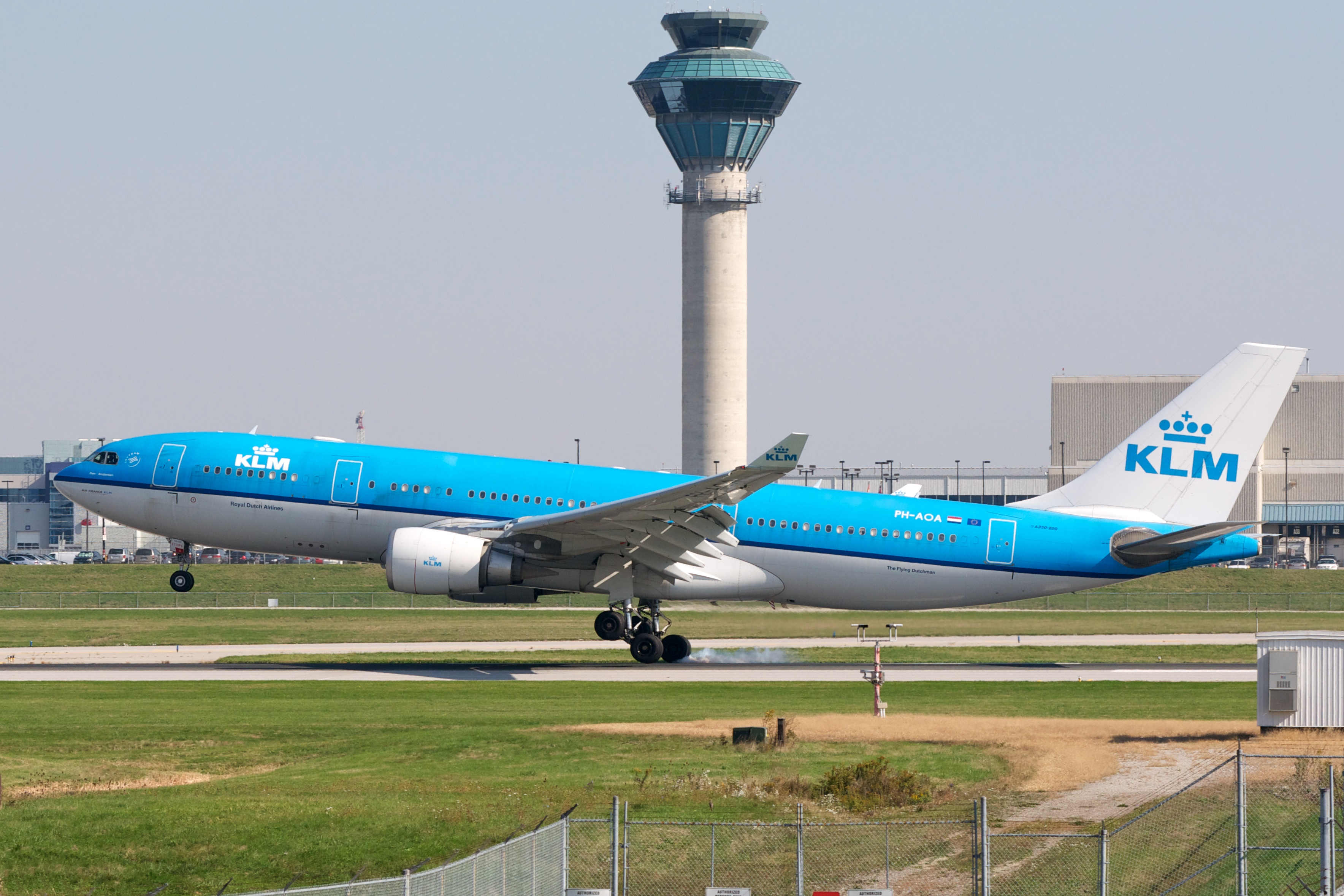 An Airbus A330-200 PH-AOA of KLM in Toronto Pearson International Airport, Canada (October 2011).